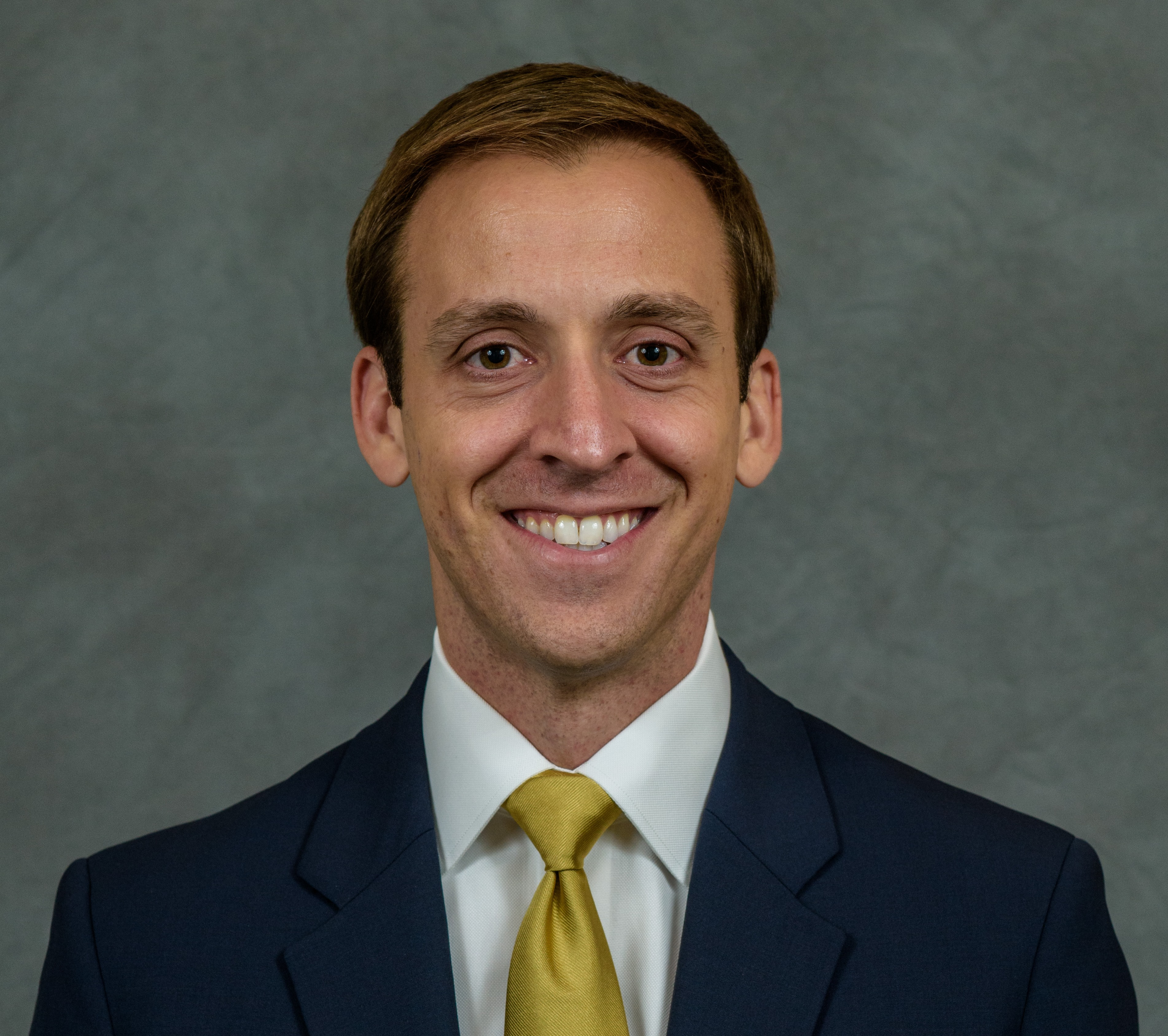 Headshot of Brandon Gaudin, 2015